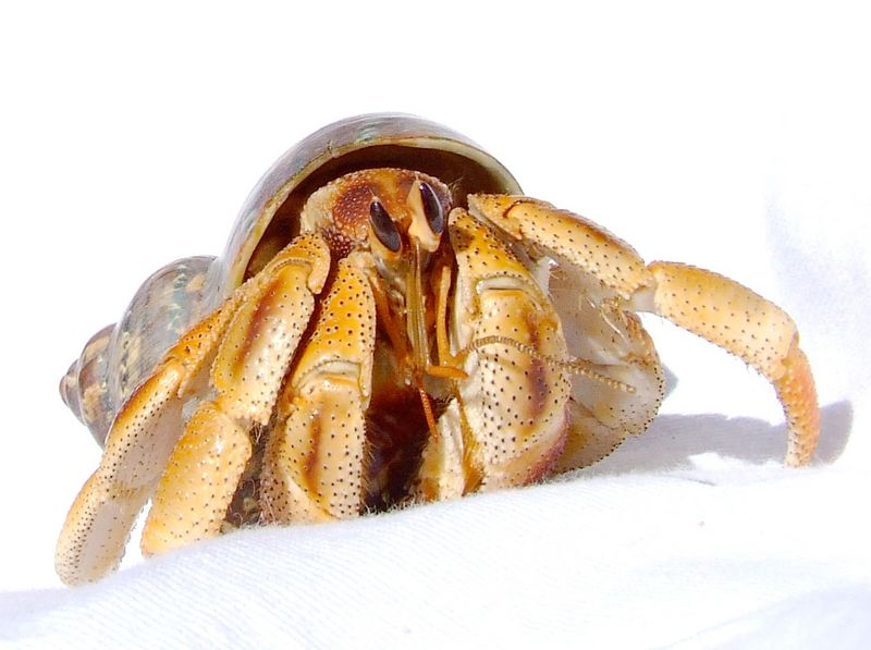 I, Vanessa Pike-Russell, took this photograph of my land hermit crab (Djinn) for use in the Wikipedia page on land hermit crabs. You can find this photo online at